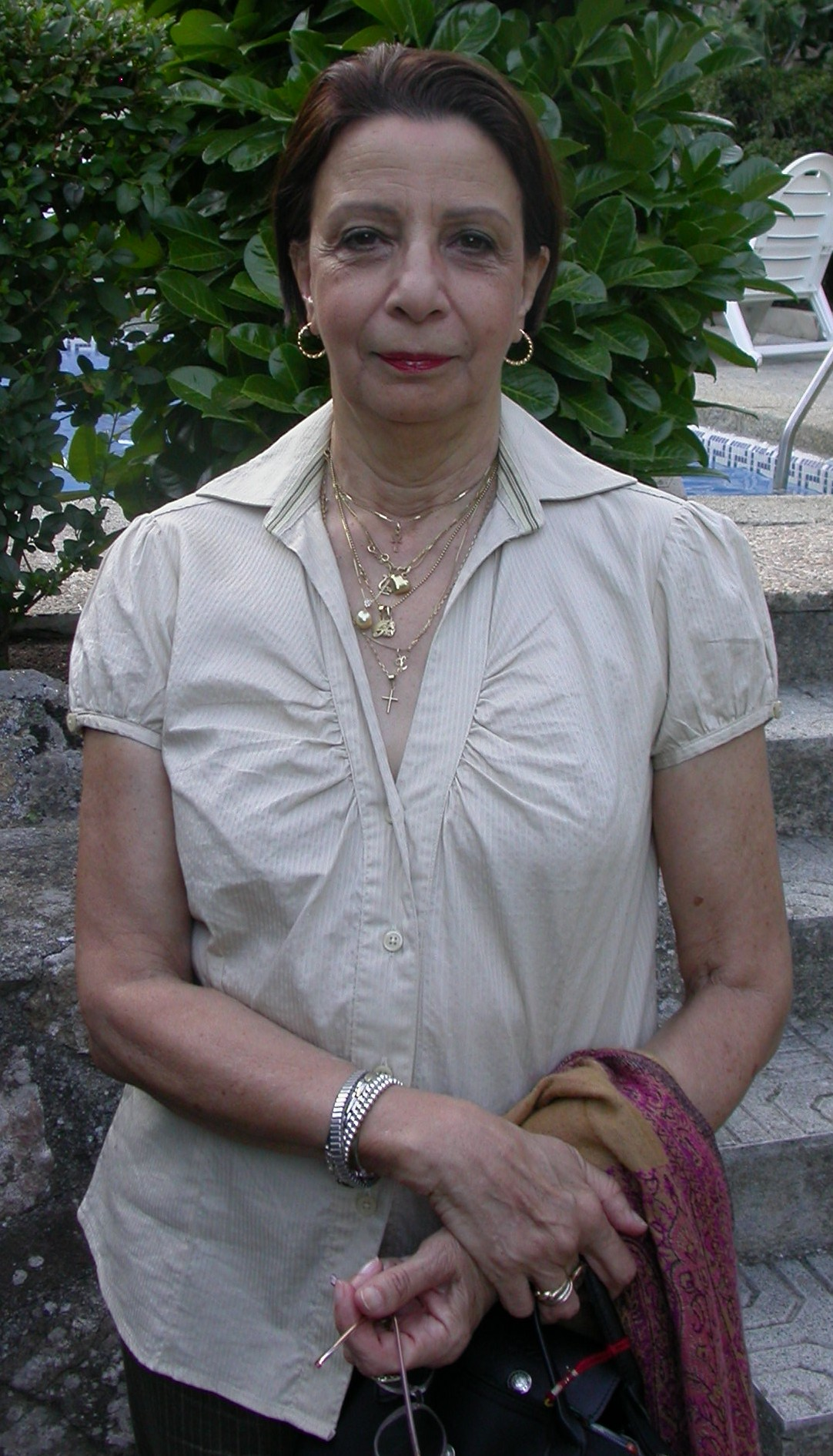 Loipa Araujo, San Lorenzo de El Escorial (Spain), 07 august 2009